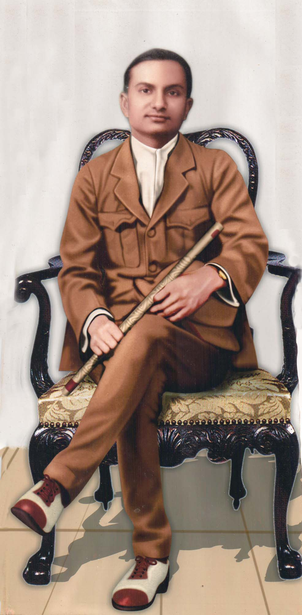 Sardarmal Lalwani Bhopal